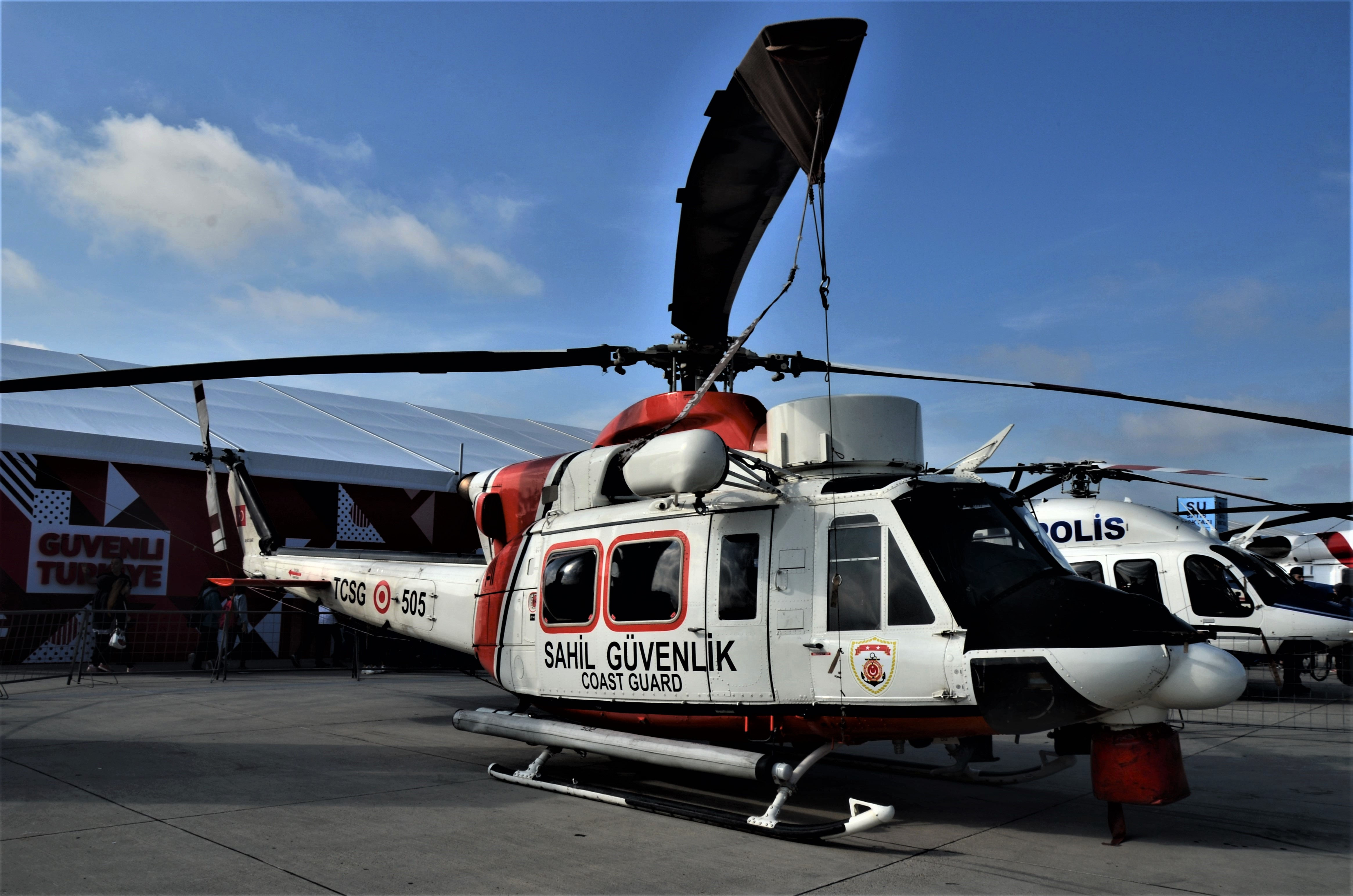 Bell 412 helcopter of the Turkish Coast Guard at Teknofest 2019